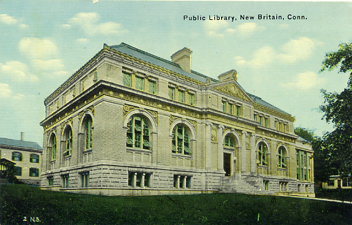 Postcard picture: New Britain Public Library, ca. 1910